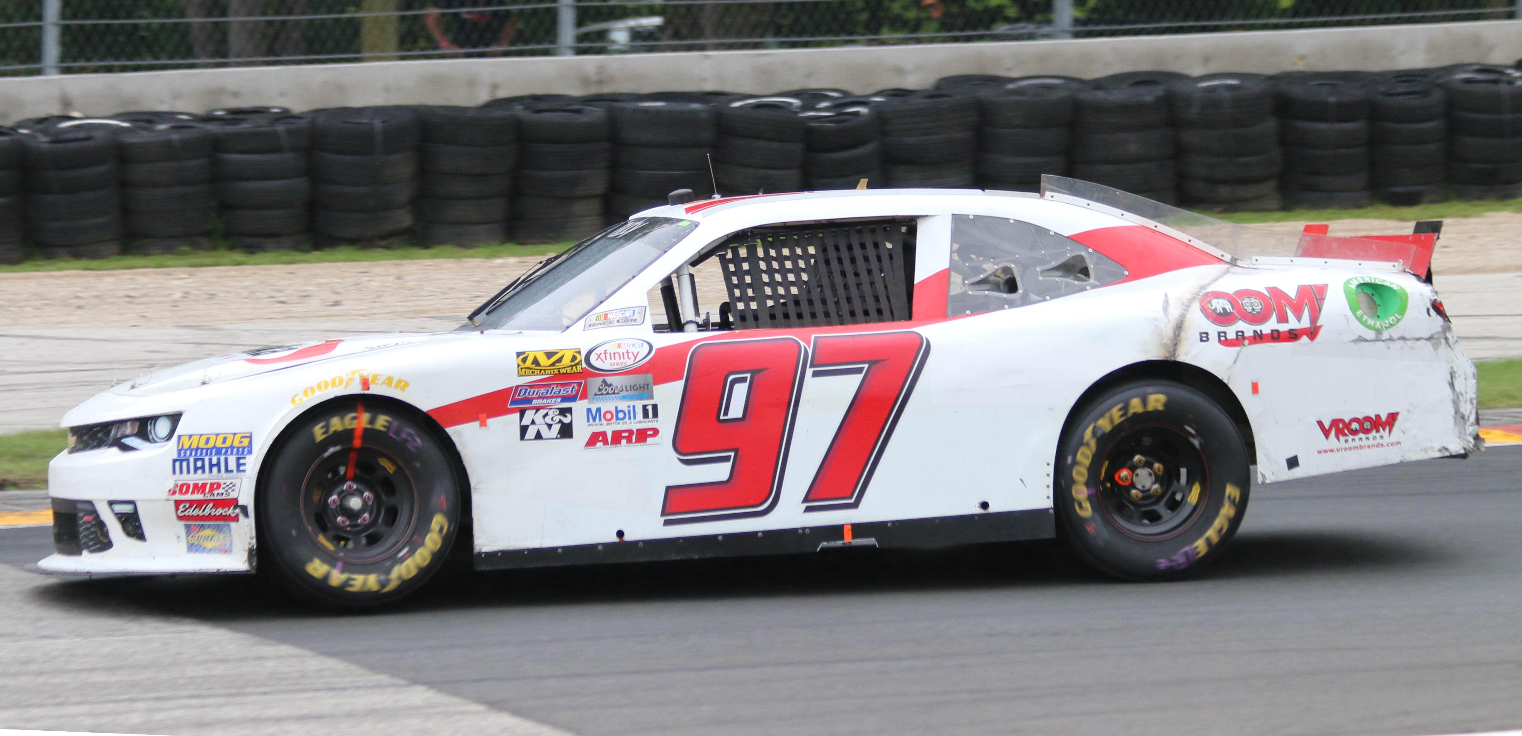 The Chevrolet Camaro of Paige Decker at the NASCAR Xfinity Series Road America 180.